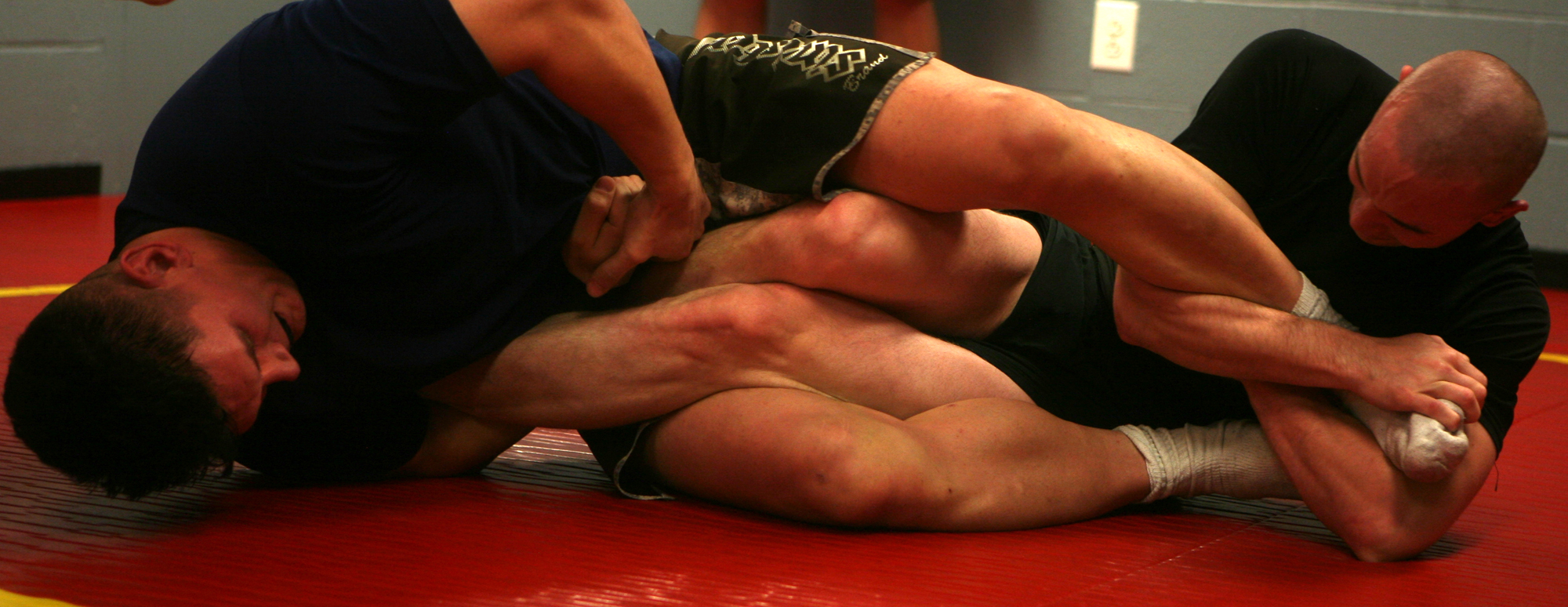 Staff Sgt. Adam R. O'Malley, a Marine Corps Martial Arts Program instructor from Combat Logistics Regiment 2, 2nd Marine Logistics Group, and Sgt. Christopher Siburt, a mechanic from General Support Motor Transport Company, CLR-2, show that size isn't a factor while they display a tough grappling match during practice, here, Jan. 21. O'Malley and Siburt recently took their passion for MCMAP and all mixed martial arts to a new level by starting a Jiu Jitsu team within the logistics group.